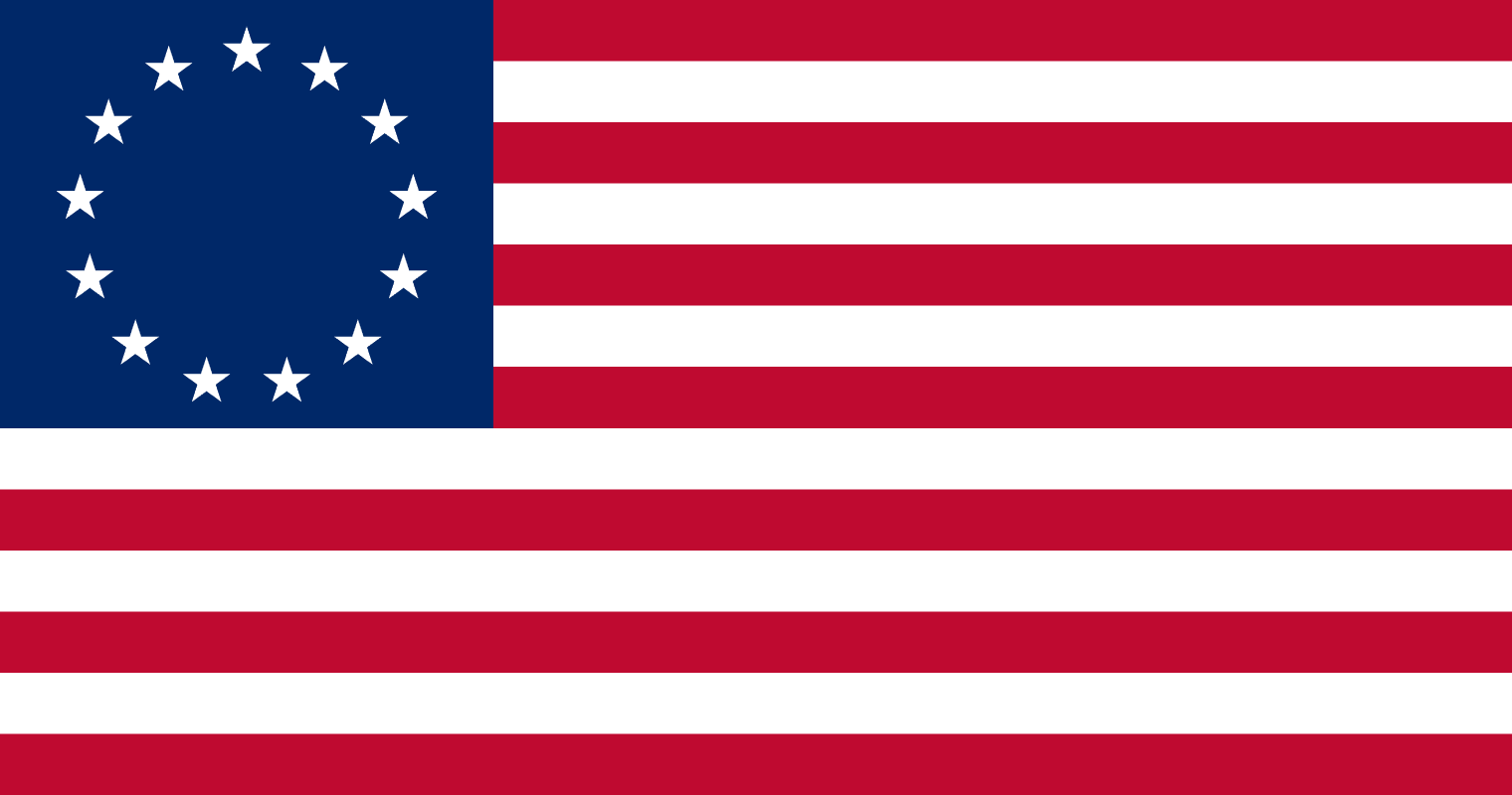 The "Betsy Ross" 13-star US flag (1776), provided by Jacobulus on 14 February 2005 to the englisch Wikipedia.